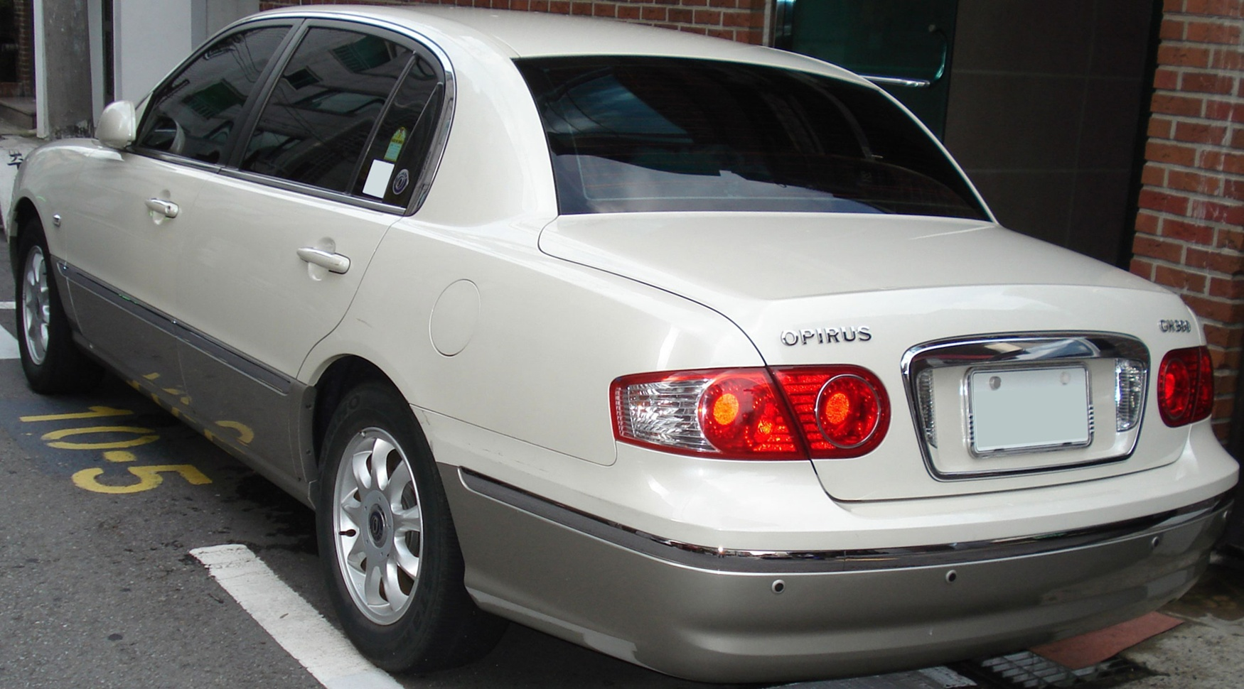 Kia Opirus